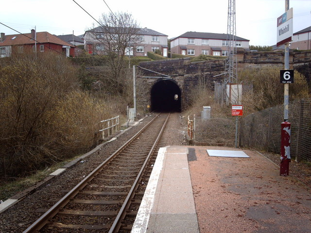 Whinhill railway station